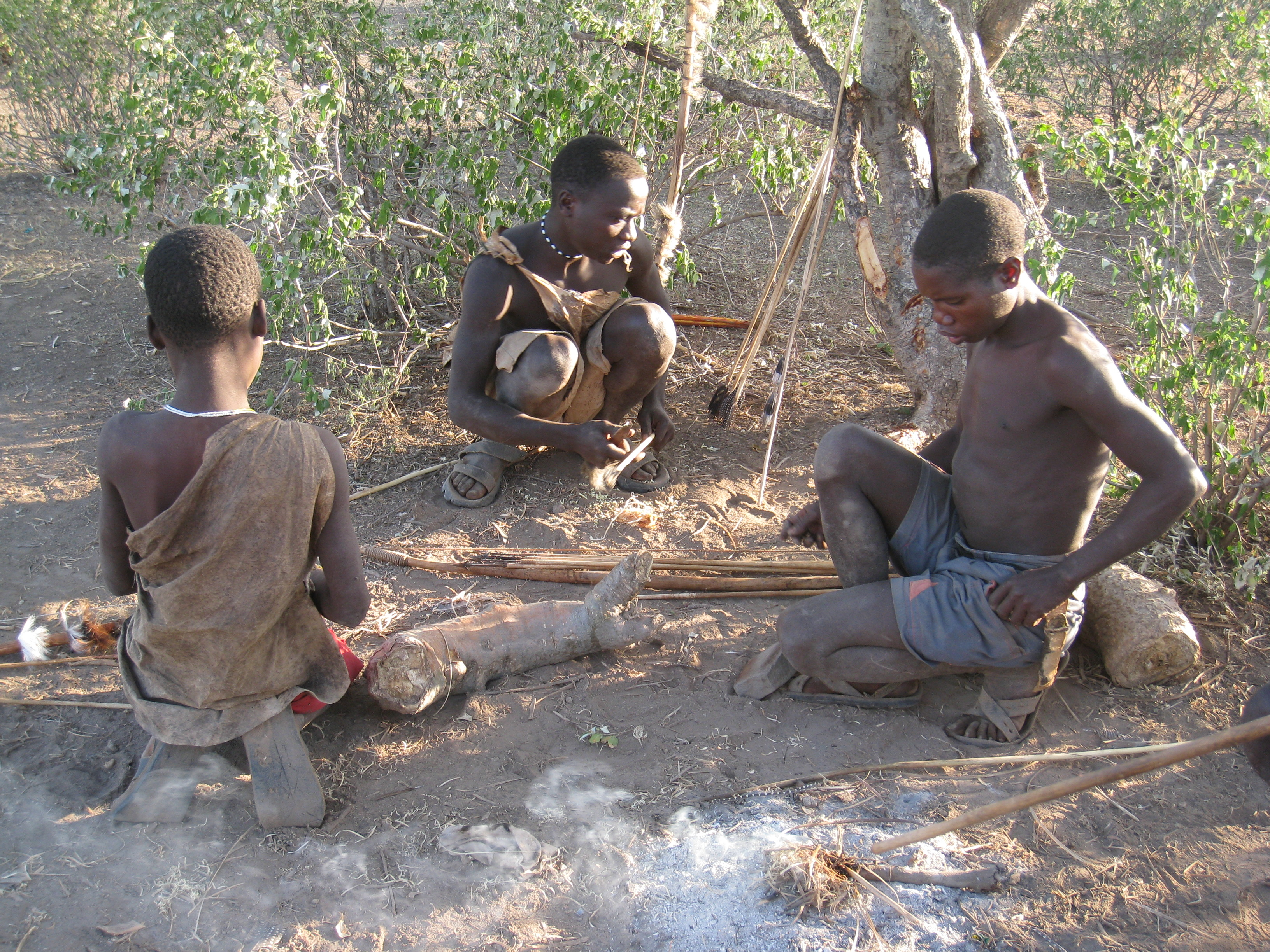 Hadzabe Tribe, Tanzania